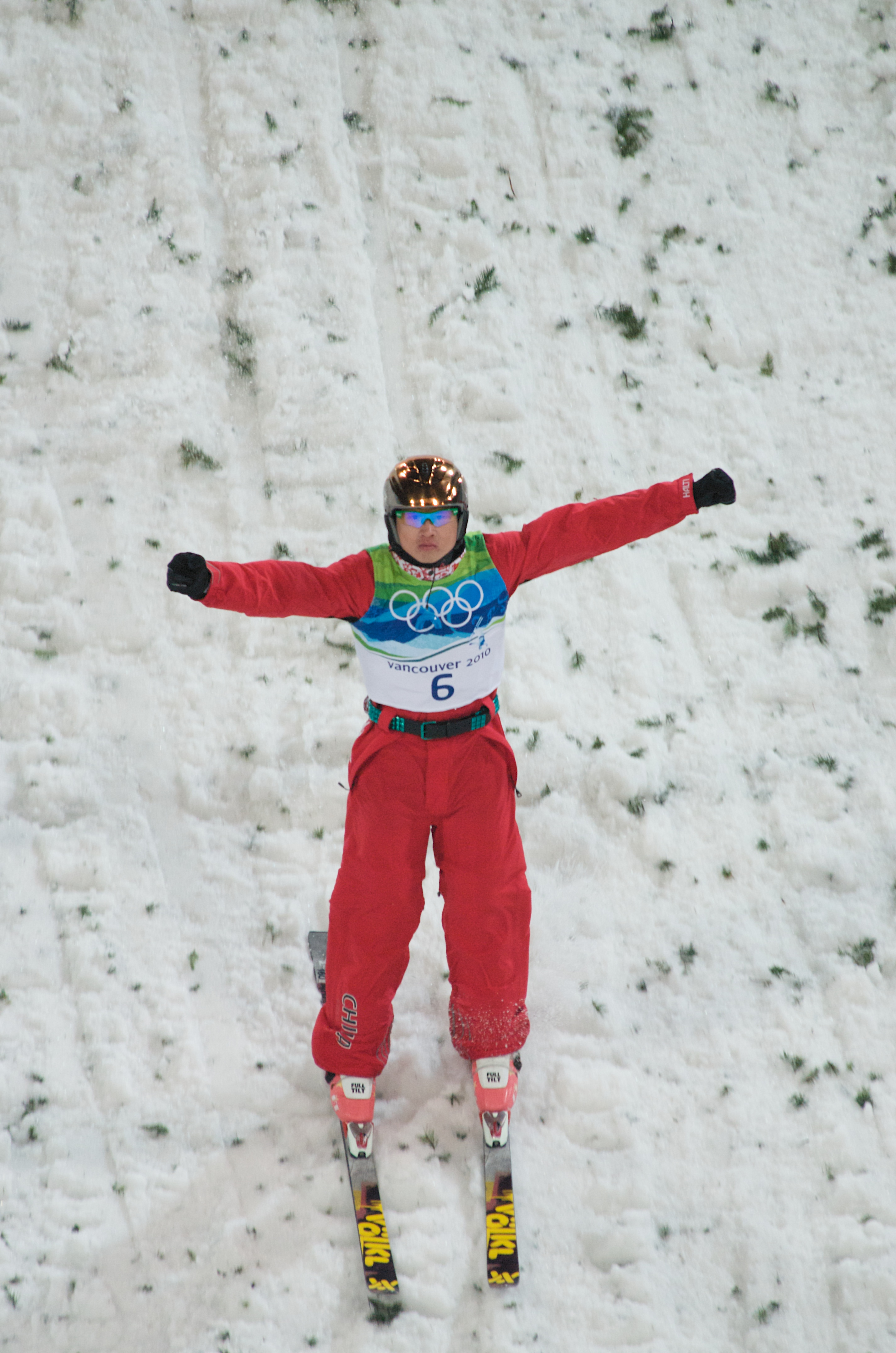 Liu Zhongqing competing in the men's aerials at the 2010 Winter Olympics